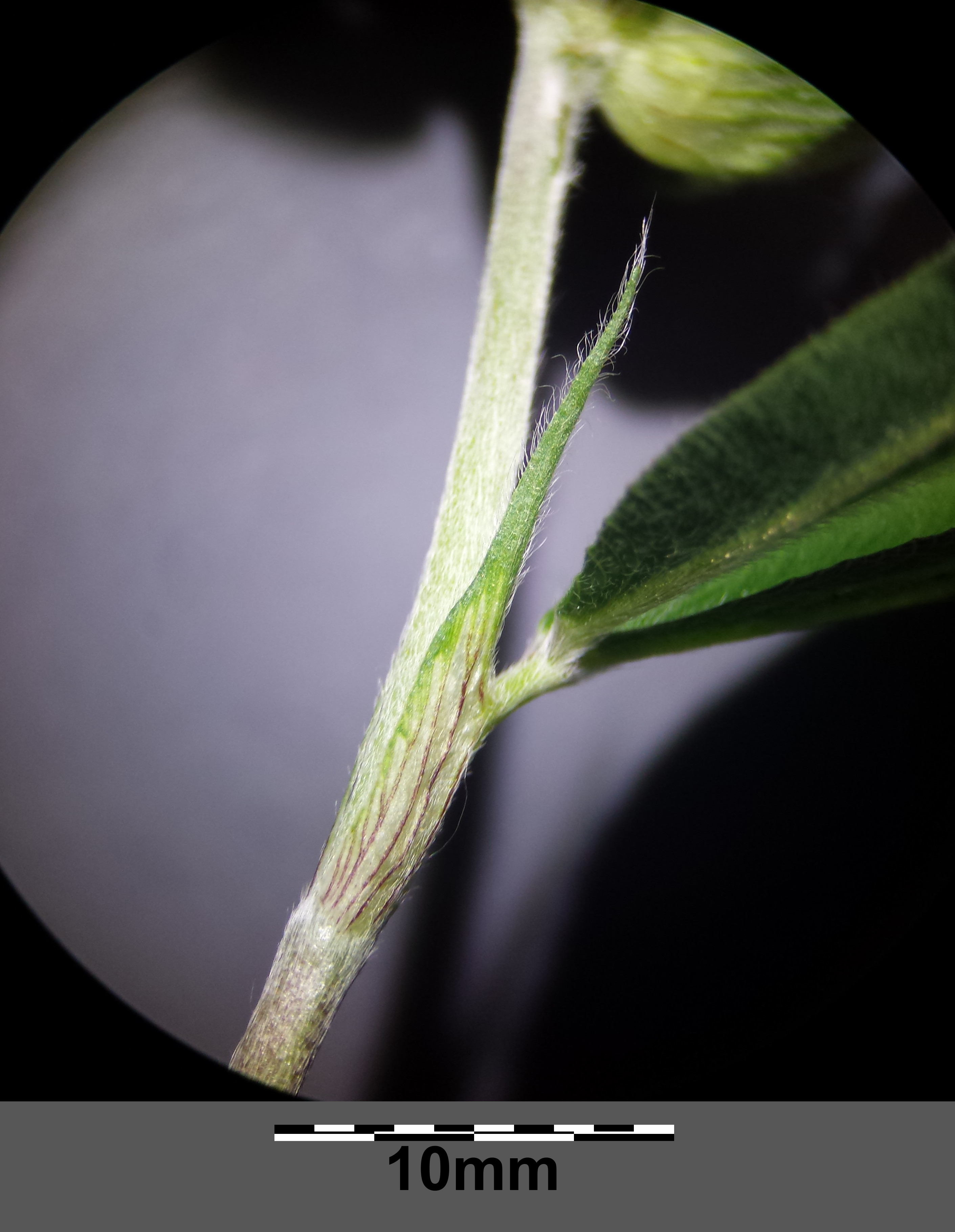 Stem with stipules Taxonym: Trifolium alpestre ss Fischer et al. EfÖLS 2008 ISBN 978-3-85474-187-9 Location: semi-dry grasslands and wine yards to the north of Oberthern, municipality Heldenberg, district Hollabrunn, Lower Austria - ca. 300 m ü. A. Habitat: slope